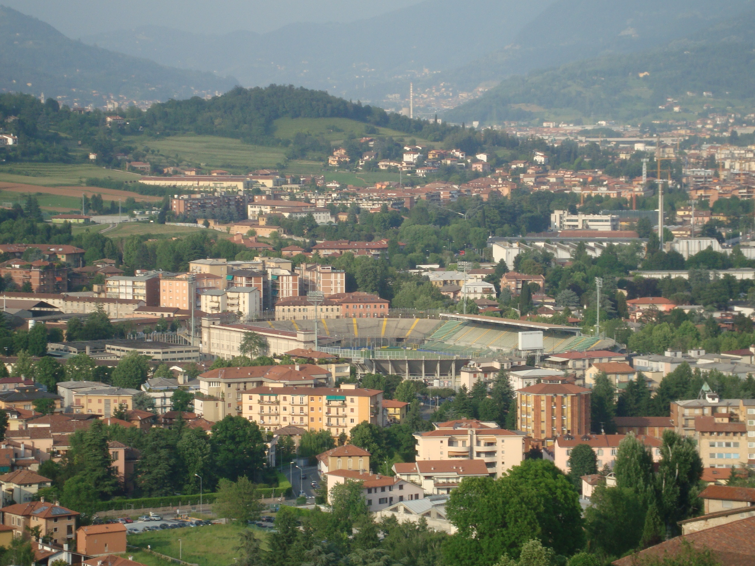 Stadio Bergamo, Italia